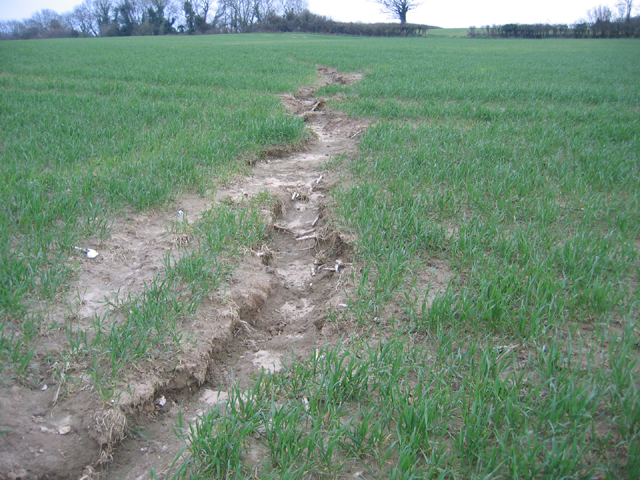 Soil erosion, Warmwell, Dorset. Following prolonged heavy rain, a deep rill formed in this wheat field in the west of the parish.